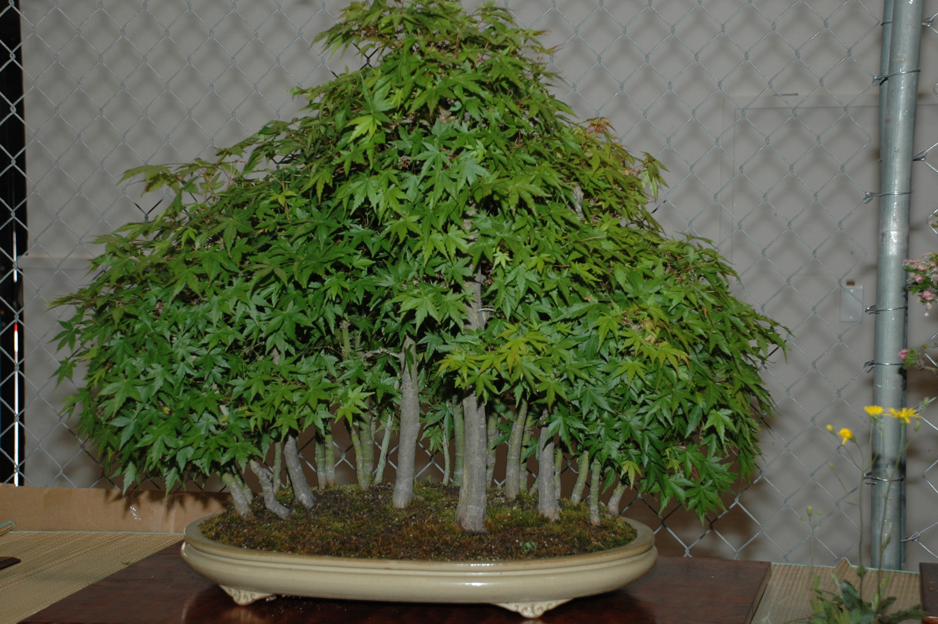 Maker Faire 2008, San Mateo - A bonsai on display